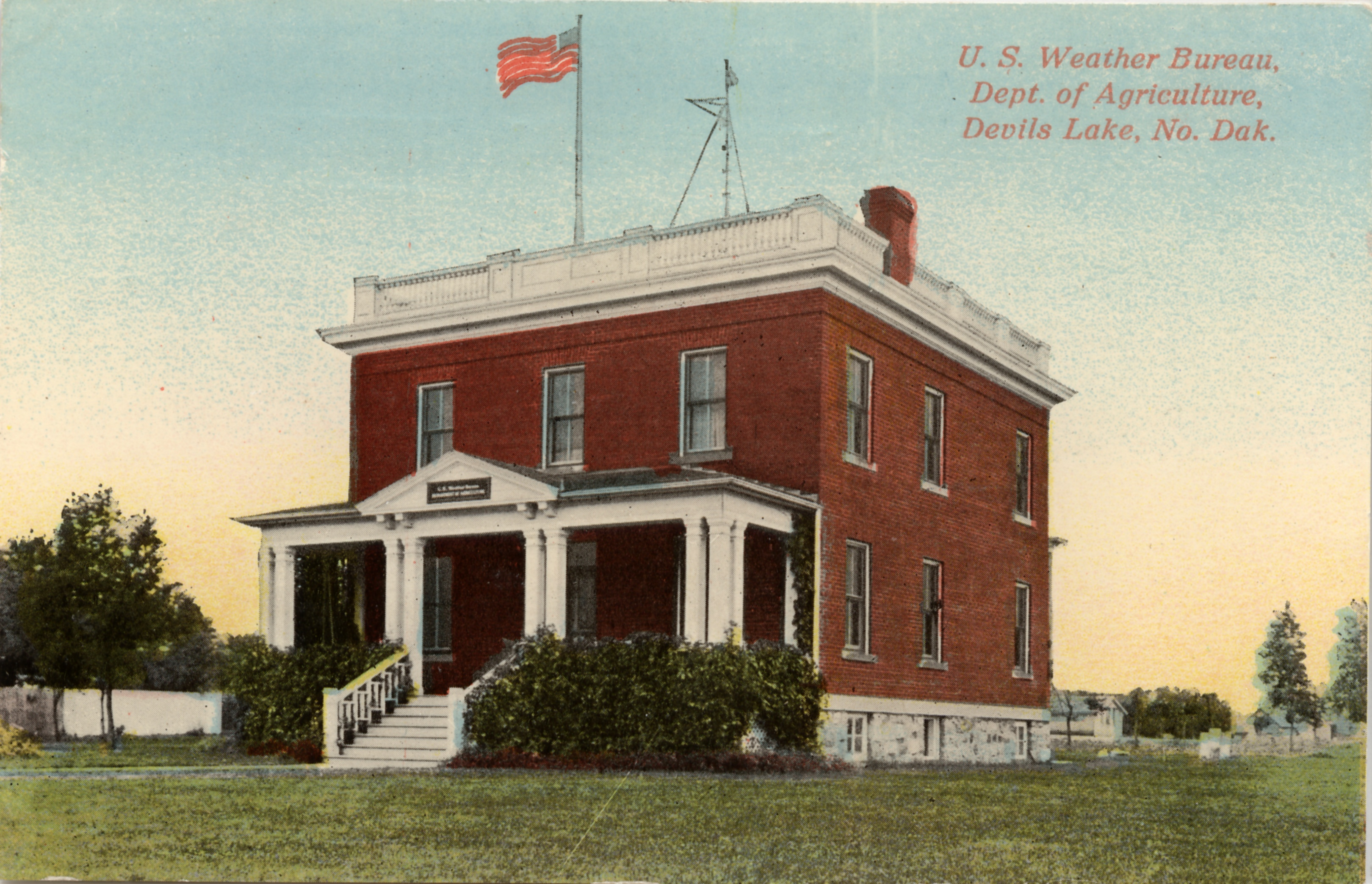 Postcard of the U.S. Weather Bureau Building at Devils Lake, North Dakota. 1900 Circa.